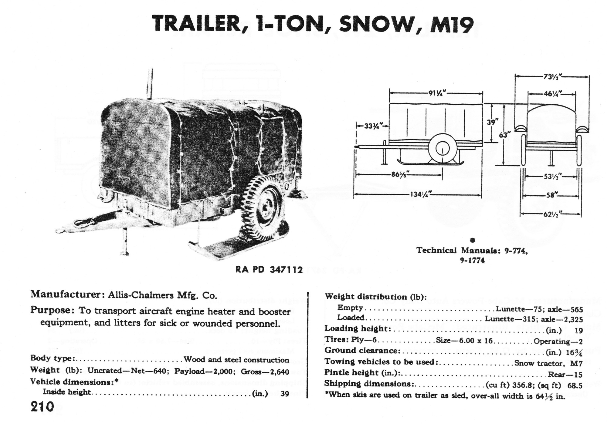 Image and nomenclature regarding the U.S. Army M19 1-ton Snow Trailer taken from U.S. Army publication TM9-2800 Military Vehicles Dated October, 1947.